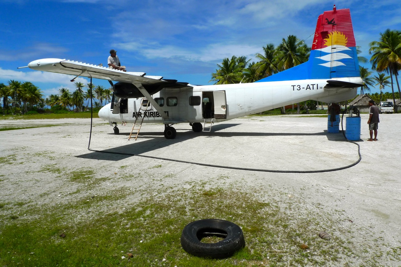 Air Kiribati Harbin Y-12 (T3-ATI) at Tabiteuea North Airport